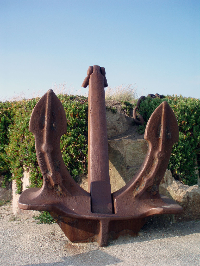 Anchor of the Aegean Sea near Finisterre.